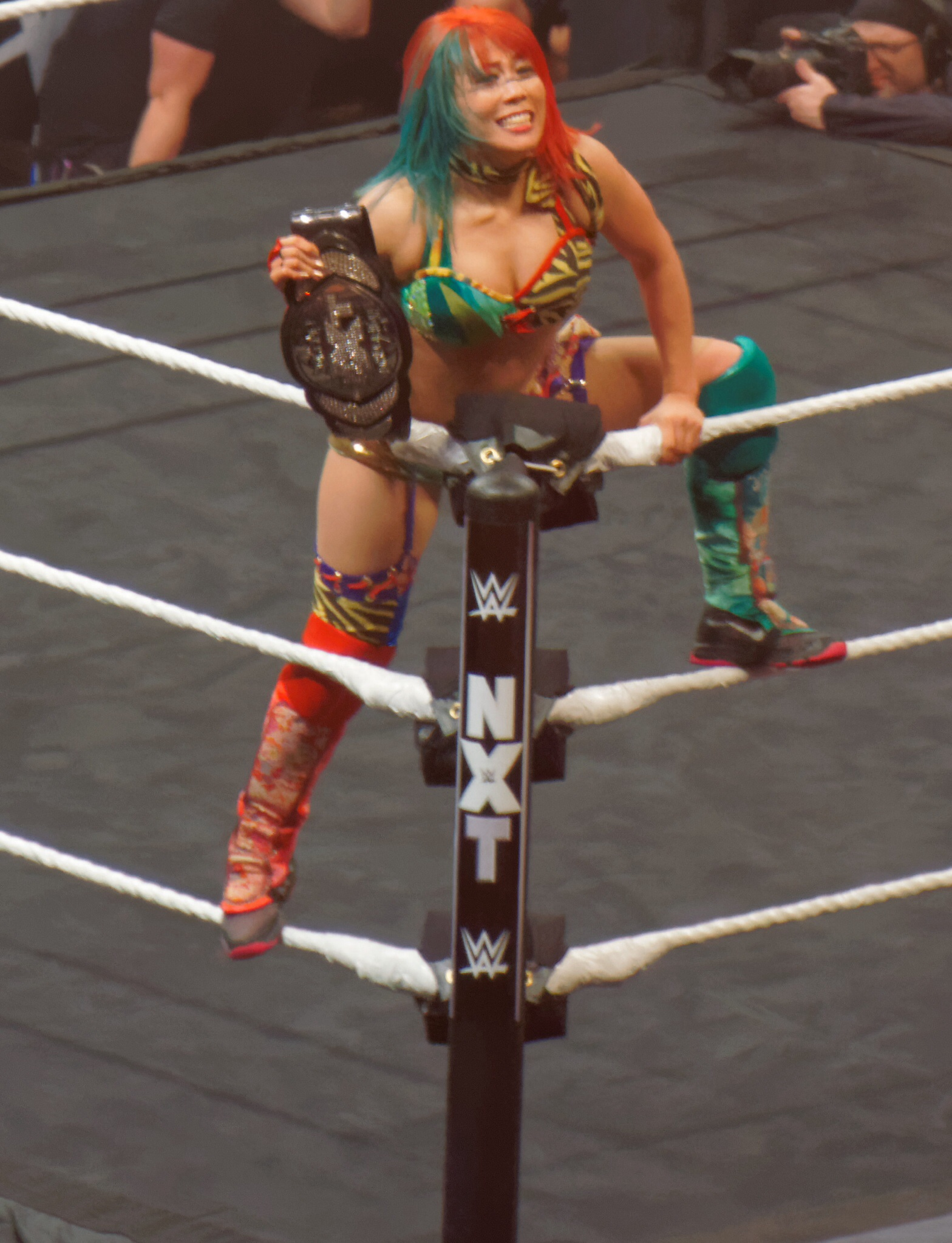 NXT TakeOver: Dallas was a major professional wrestling show in the NXT TakeOver series that took place on April 1, 2016, produced by WWE, showcasing its NXT developmental brand, and was streamed live on the WWE Network. It took place in the Kay Bailey Hutchison Convention Center in Dallas, Texas, during the weekend of WrestleMania 32. It was the first show in the NXT TakeOver series to be broadcast live on the WWE Network during WrestleMania weekend and first of 2016.[4] It was notable for Shinsuke Nakamura's WWE debut and first live match. The event received critical acclaim, with critics endorsing it as being better than WWE's WrestleMania 32 held two days later. The Zayn-Nakamura match was also lauded for being better than any match from WrestleMania 32. Asuka def. (sub) Bayley (c) for the NXT Women's Title (title change)